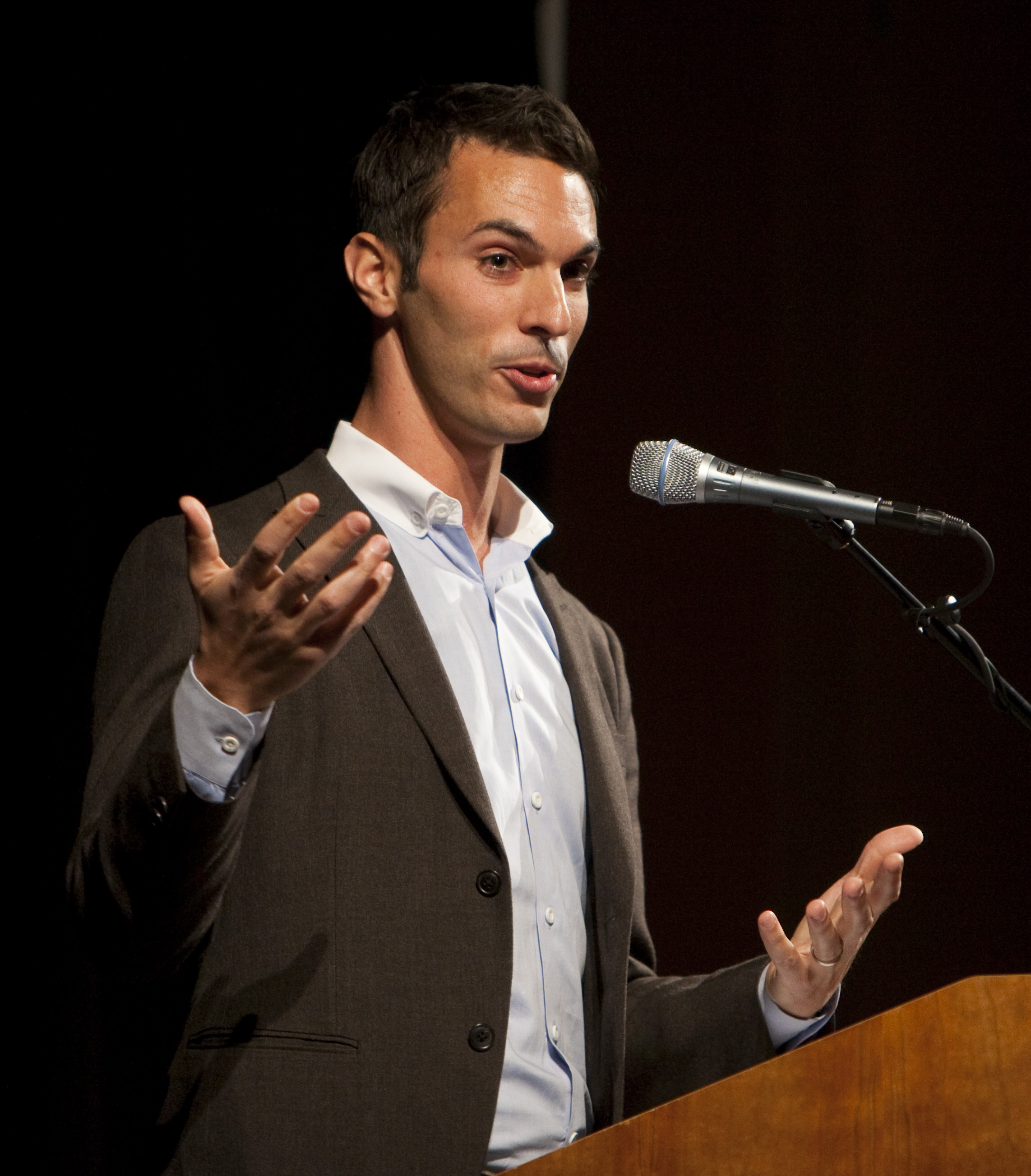 NPR correspondent Ari Shapiro will was on campus as part of COD’s College Lecture Series. Tuesday, Nov. 13, 2012 in the Student Resource Center, Glen Ellyn, Ill. Photography by James C. Svehla